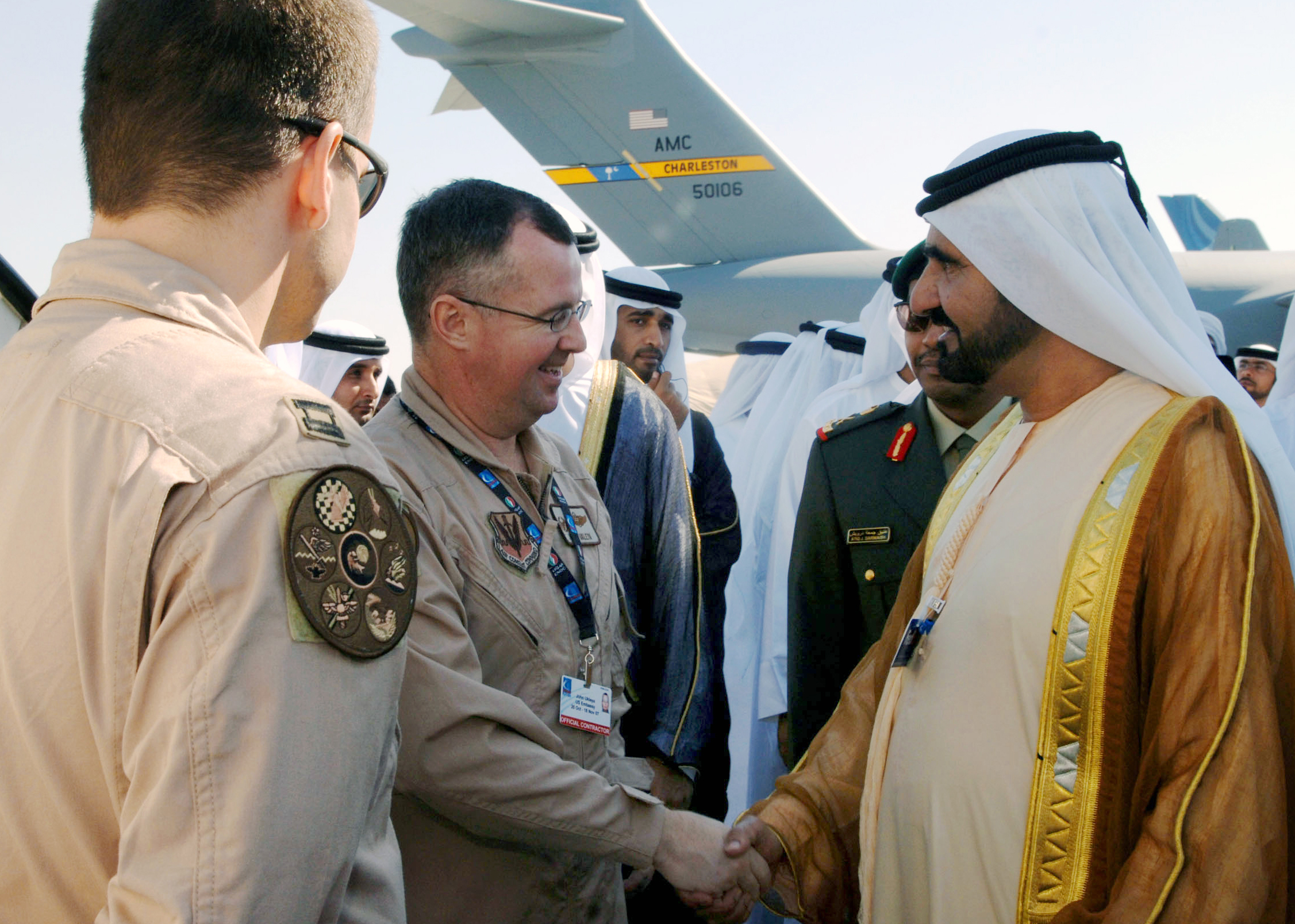 His Highness Shaikh Mohmmed bin Rashid Al Maktoum, vice president and prime minister of the United Arab Emirates and ruler of Dubai, meets U.S. Air Force Lt. Col. John Ukleya and U.S. Air Force Capt. John Dress on Nov. 11, 2007, at the Dubai Air Show.